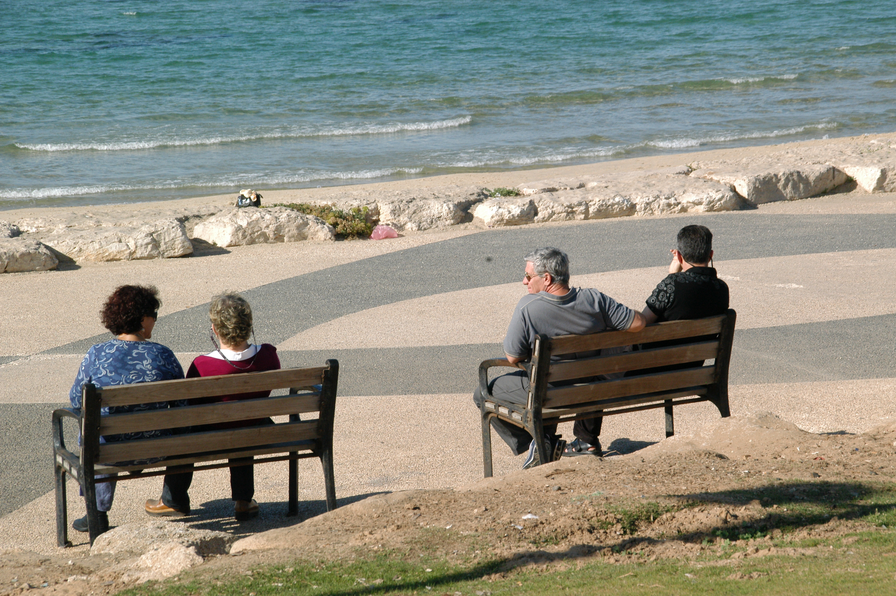 Tel Aviv Promenade